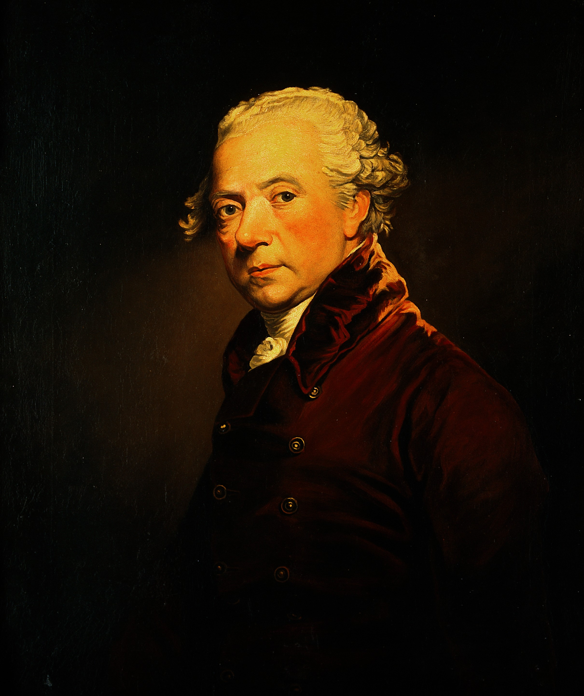 John Heaviside. Oil painting. Iconographic Collections